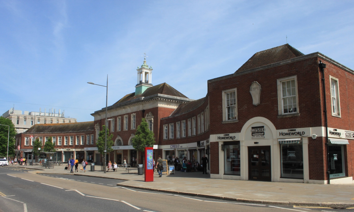 This impressive building is the front of the Central railway station in Exeter, which faces on to Queen Street.